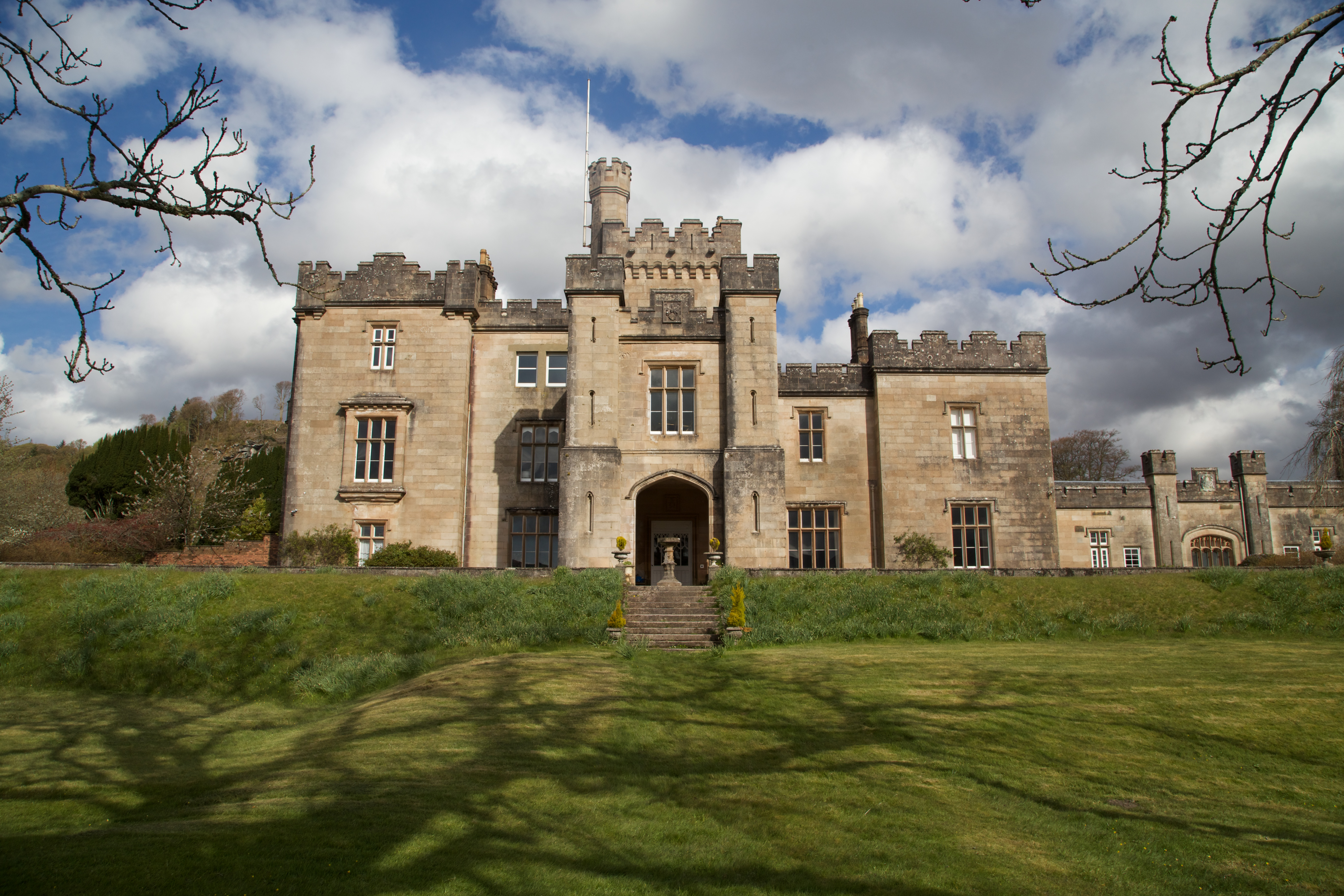 Minard Castle Wikidata has entry Q6863186 with data related to this item.